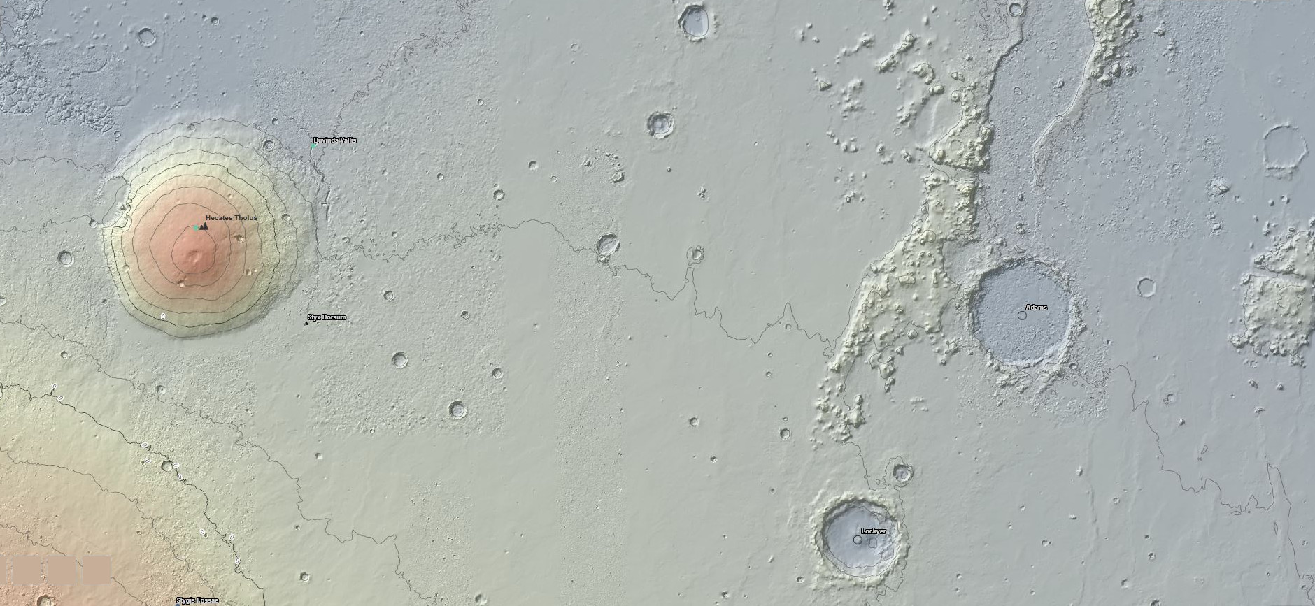 This map is made with redmapper's online topographic map and shows a cartographic representation of Adams Crater and the surrounding geography.